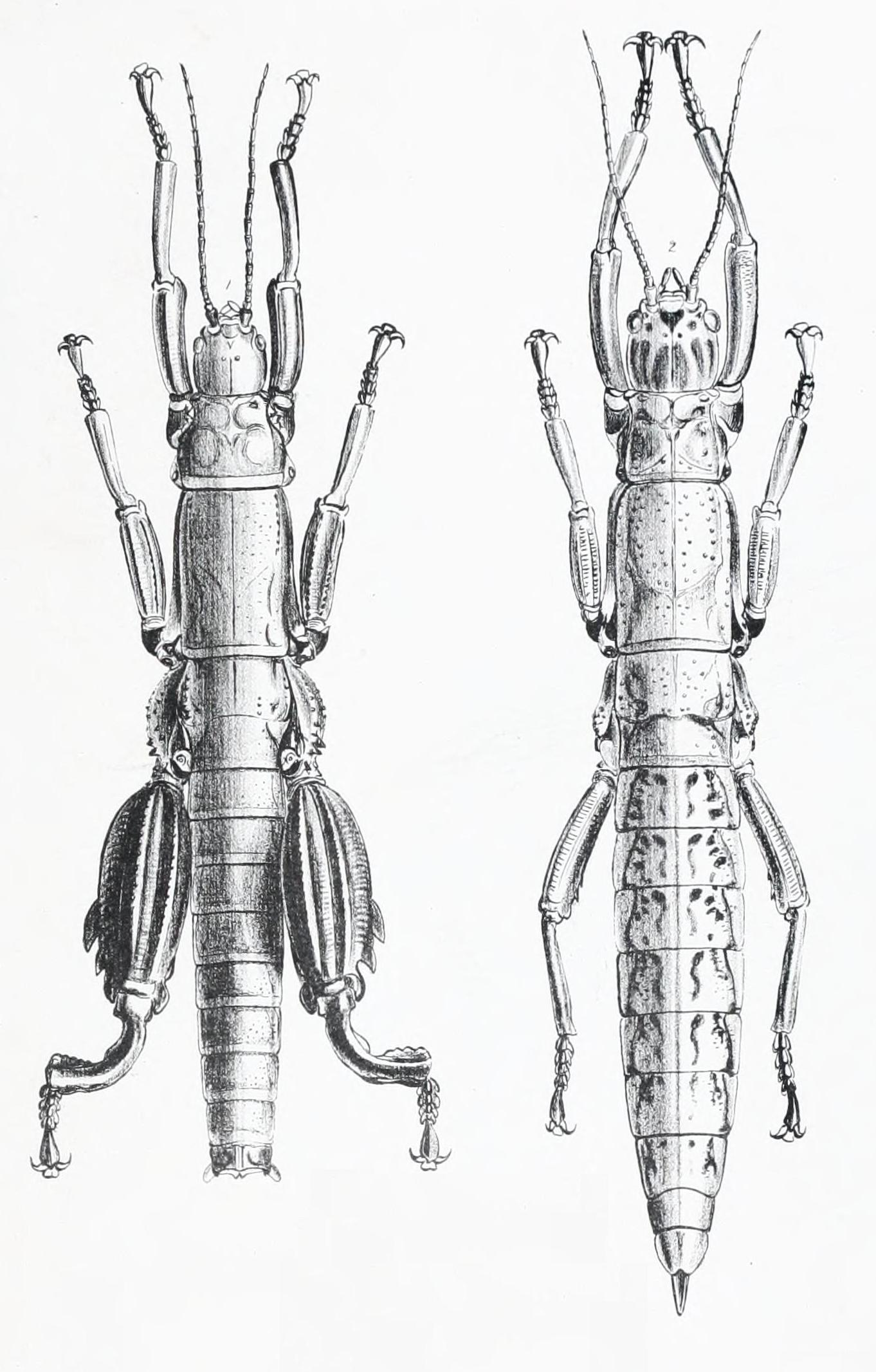 Dryococelus australis